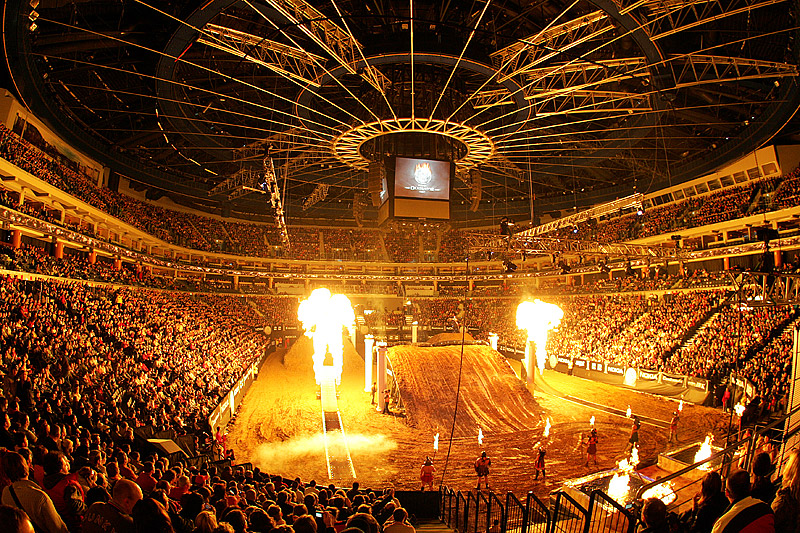 Interior of the Sazka Arena (now O2 Arena) in Prague, during a motorcycling show event.